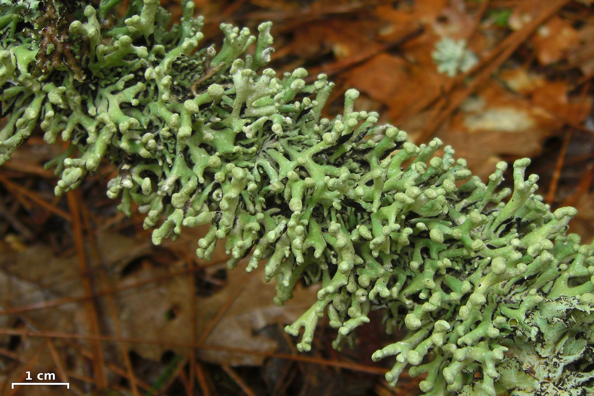 Castle Crags, California, 20130404